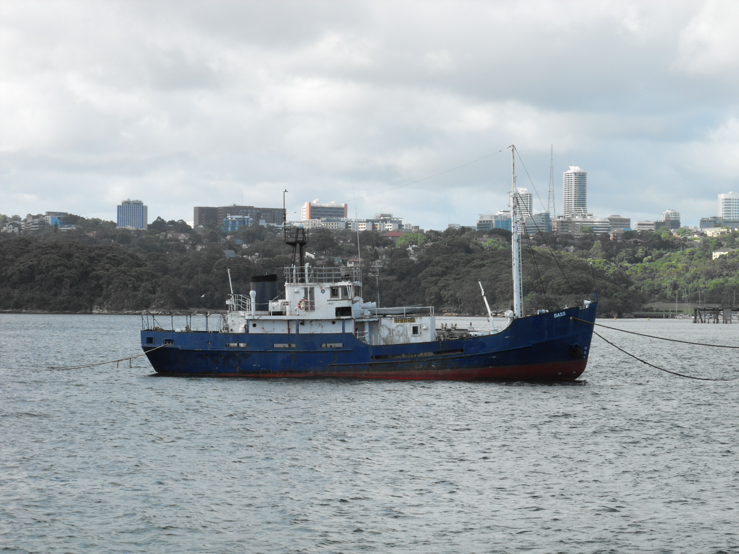 MV Bass (the former RAN general purpose vessel HMAS Bass) moored off Ballast Point, Sydney